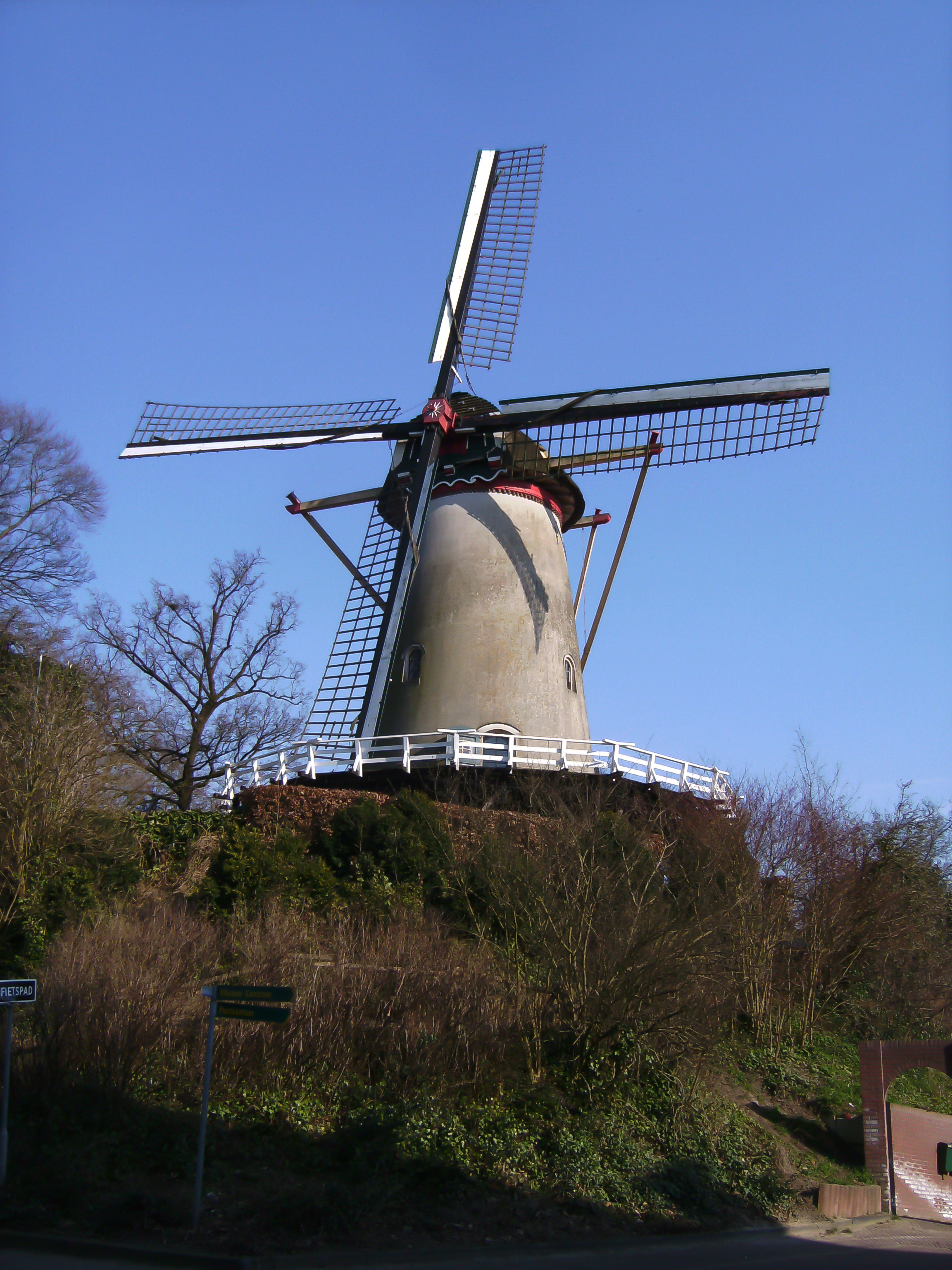 Rhenen. windmill